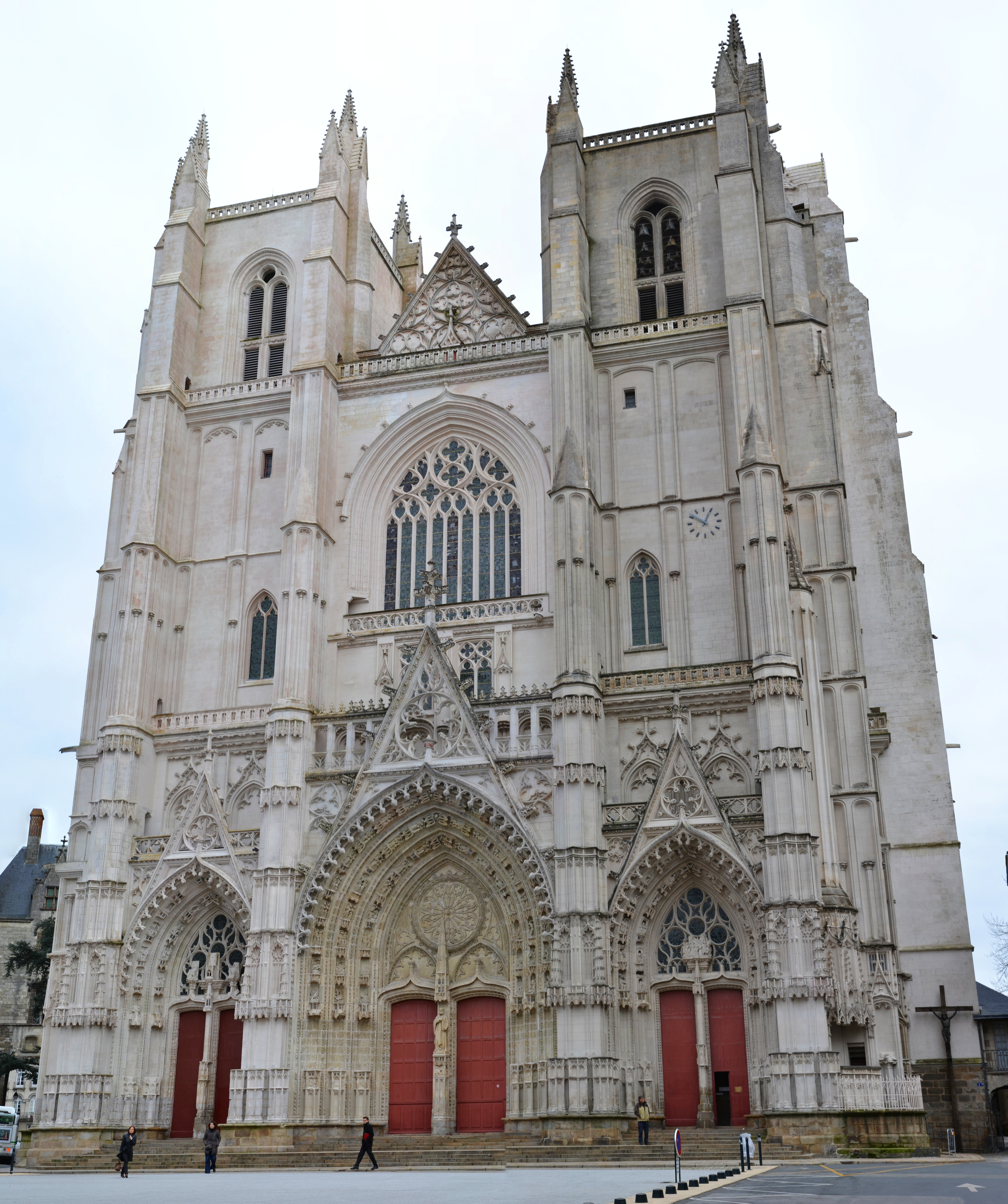 Nantes Cathedral, main facade